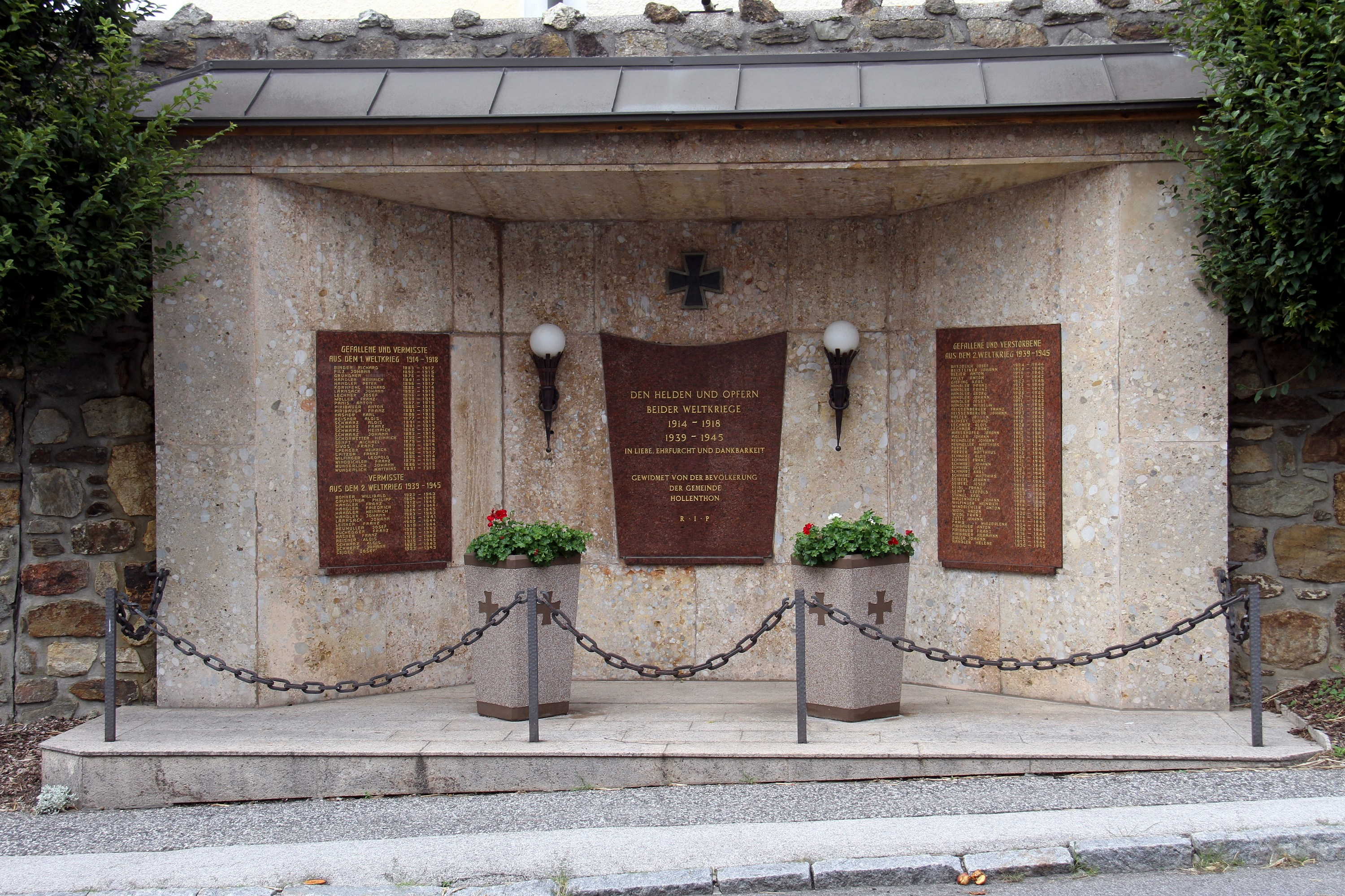 Municipality Hollenthon in Lower Austria. – The photo shows the war memorial in Hollenthon.